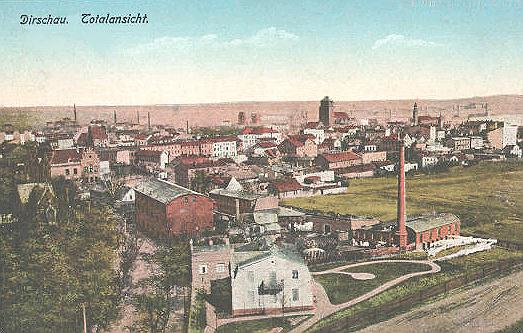 Tczew by 1900.